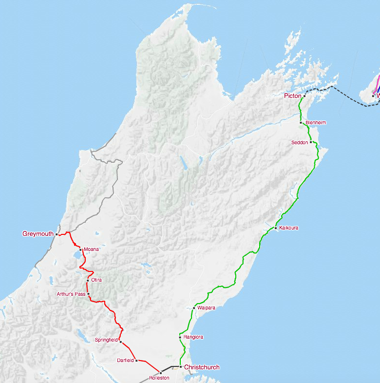 KiwiRail passenger train map Legend: ━━━ Coastal Pacific ━━━ TransAlpine train